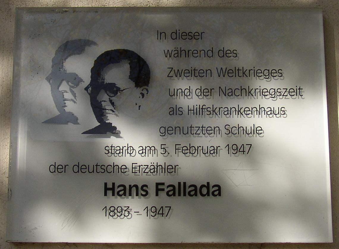 Memorial plaque for Hans Fallada in Berlin-Niederschönhausen, Germany